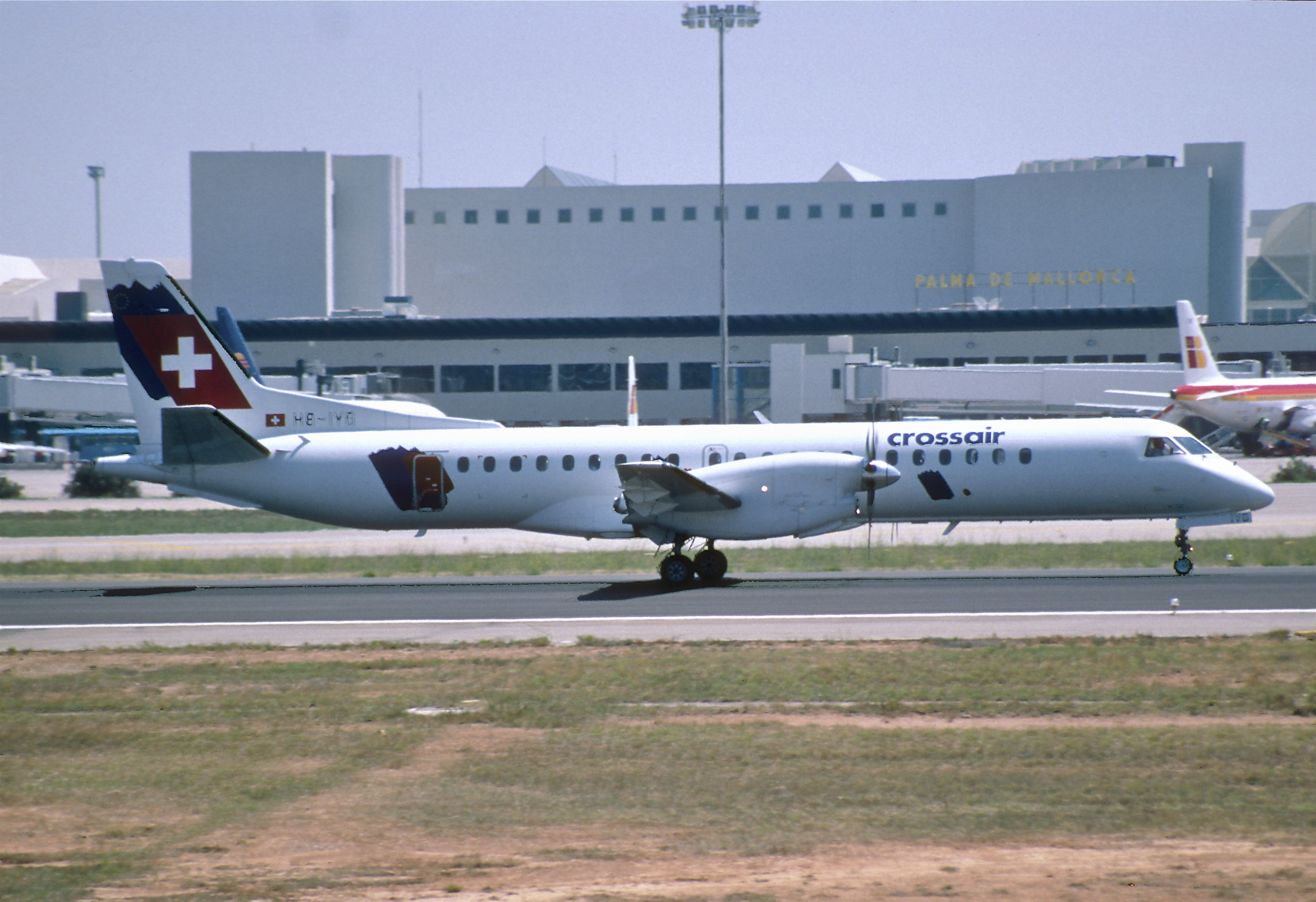 185cy - Crossair Saab 2000; HB-IYG@PMI;17.08.2002